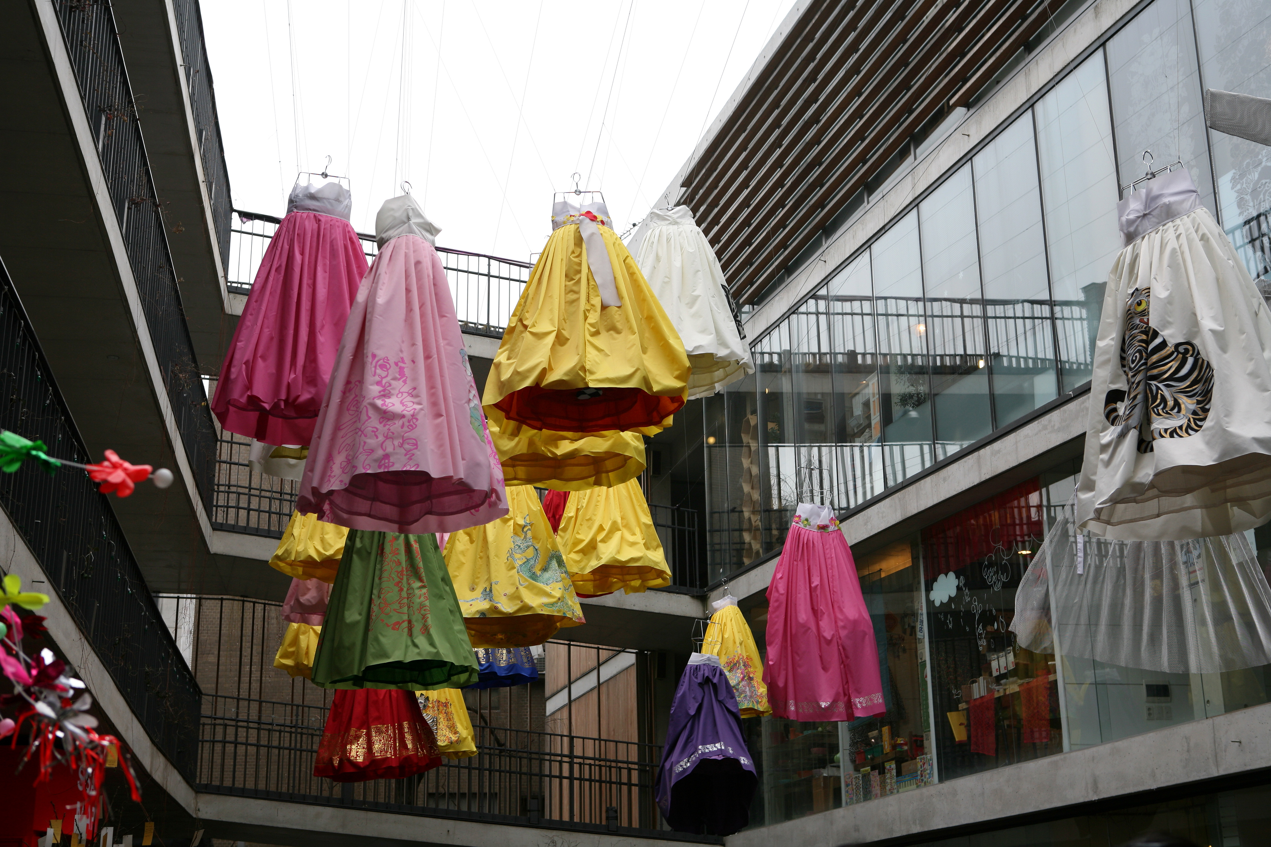 A view of streets in Insadong, Seoul